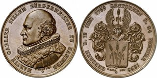 Commemorative medal on the death of Hamburg mayor Martin Garlieb Sillem